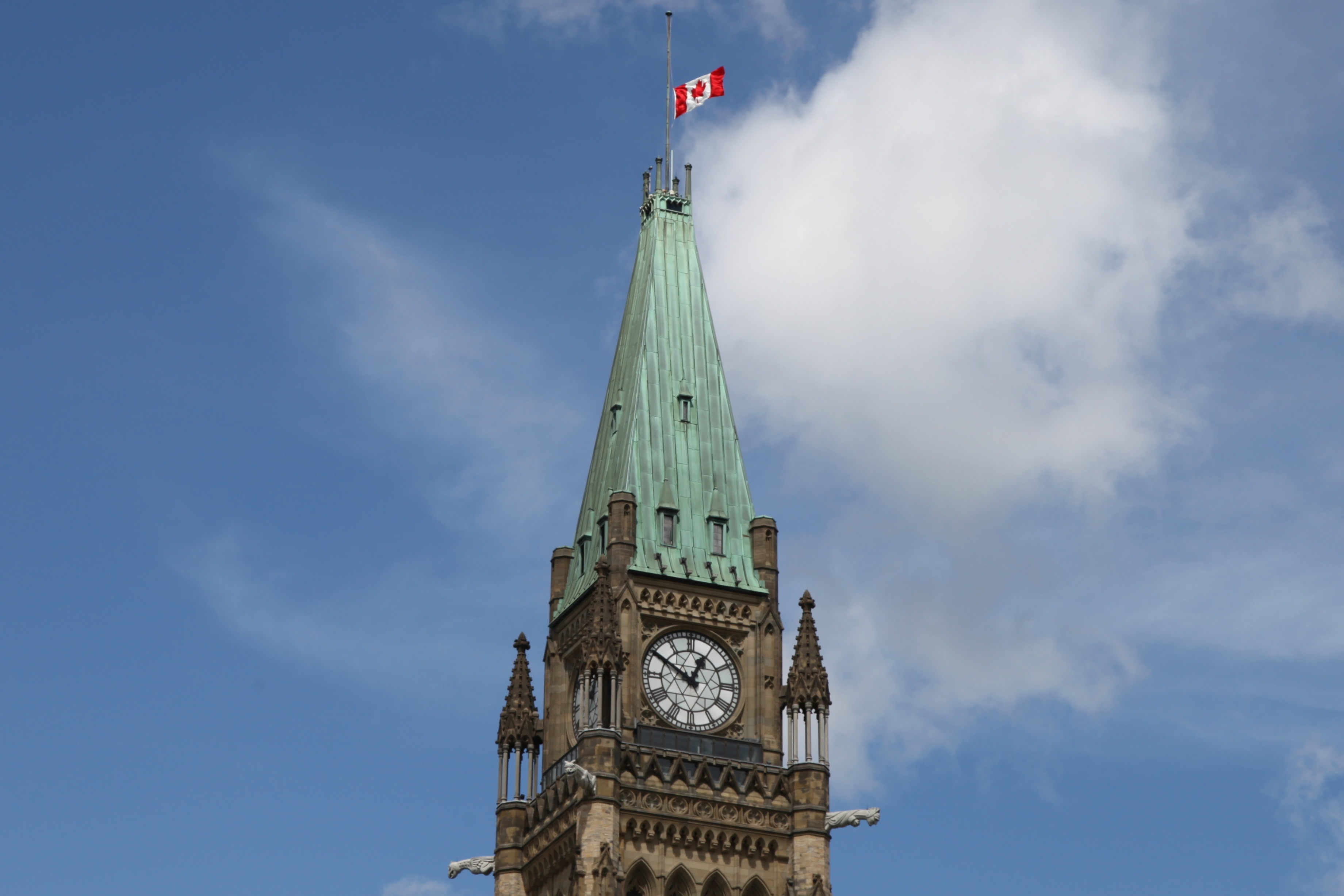 The Canadian flag Flag at half mast on the Peace Tower in mourning for the late Jack Layton.